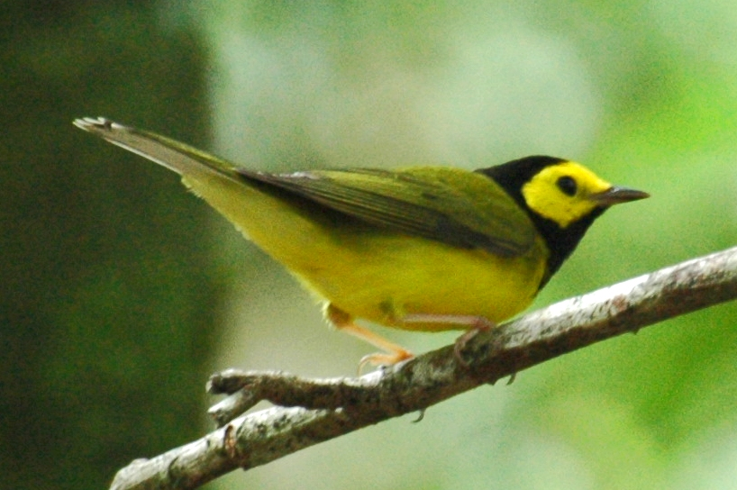 Hooded Warbler (Wilsonia citrina) spotted in the jungles of Blue Hole National Park, Belize.